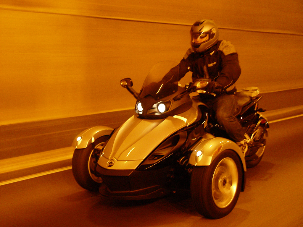 Can-Am Spyder Roadster riding in a tunnel